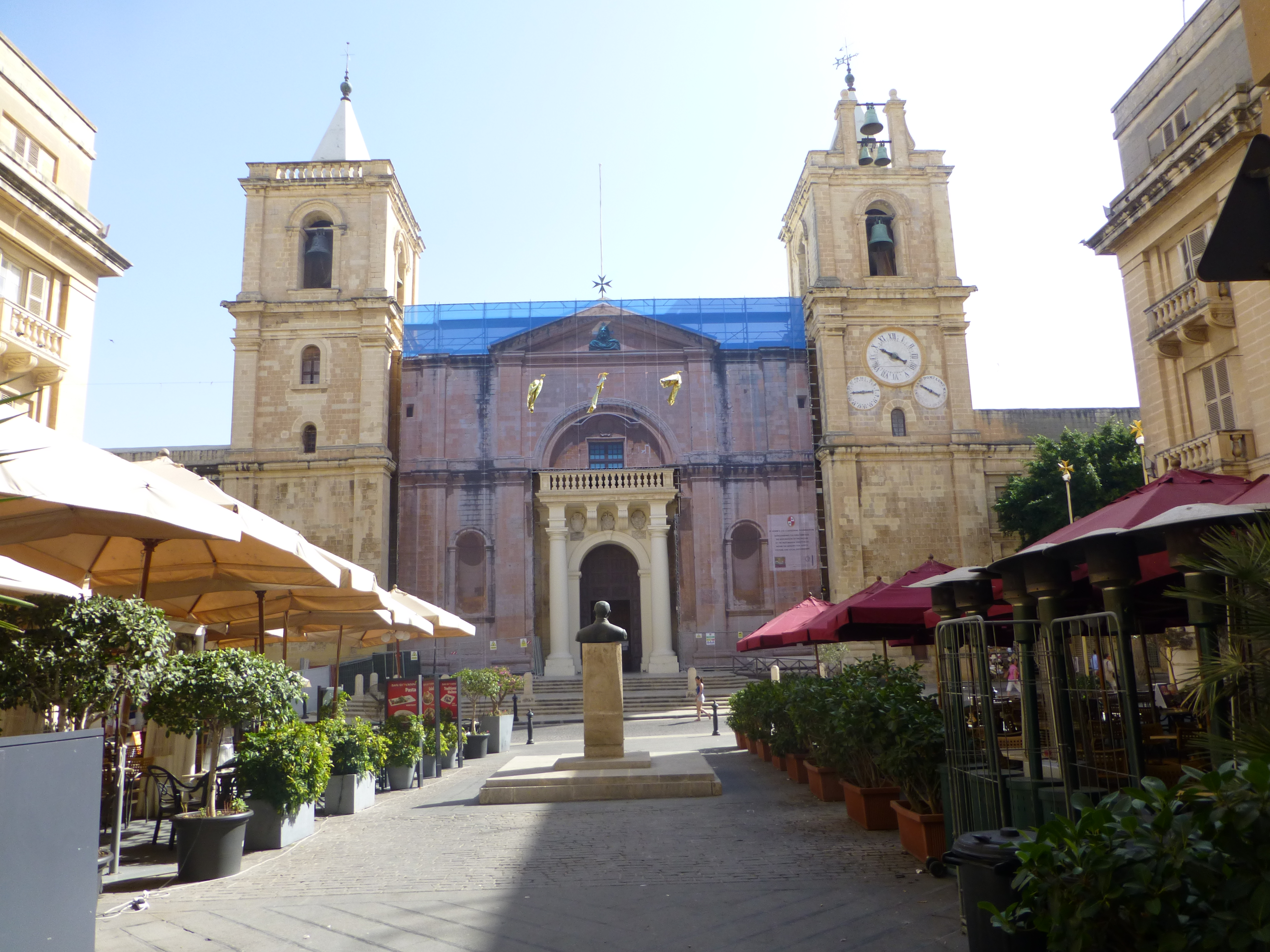 St. Johns Co-Cathedral located in Valletta, Malta, was built by the Knights of Malta between 1573 and 1578, having been commissioned in 1572 by Grand Master Jean de la Cassière.